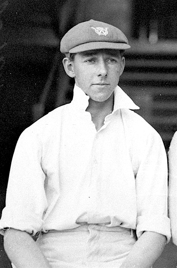 Archie Jackson in october 1932